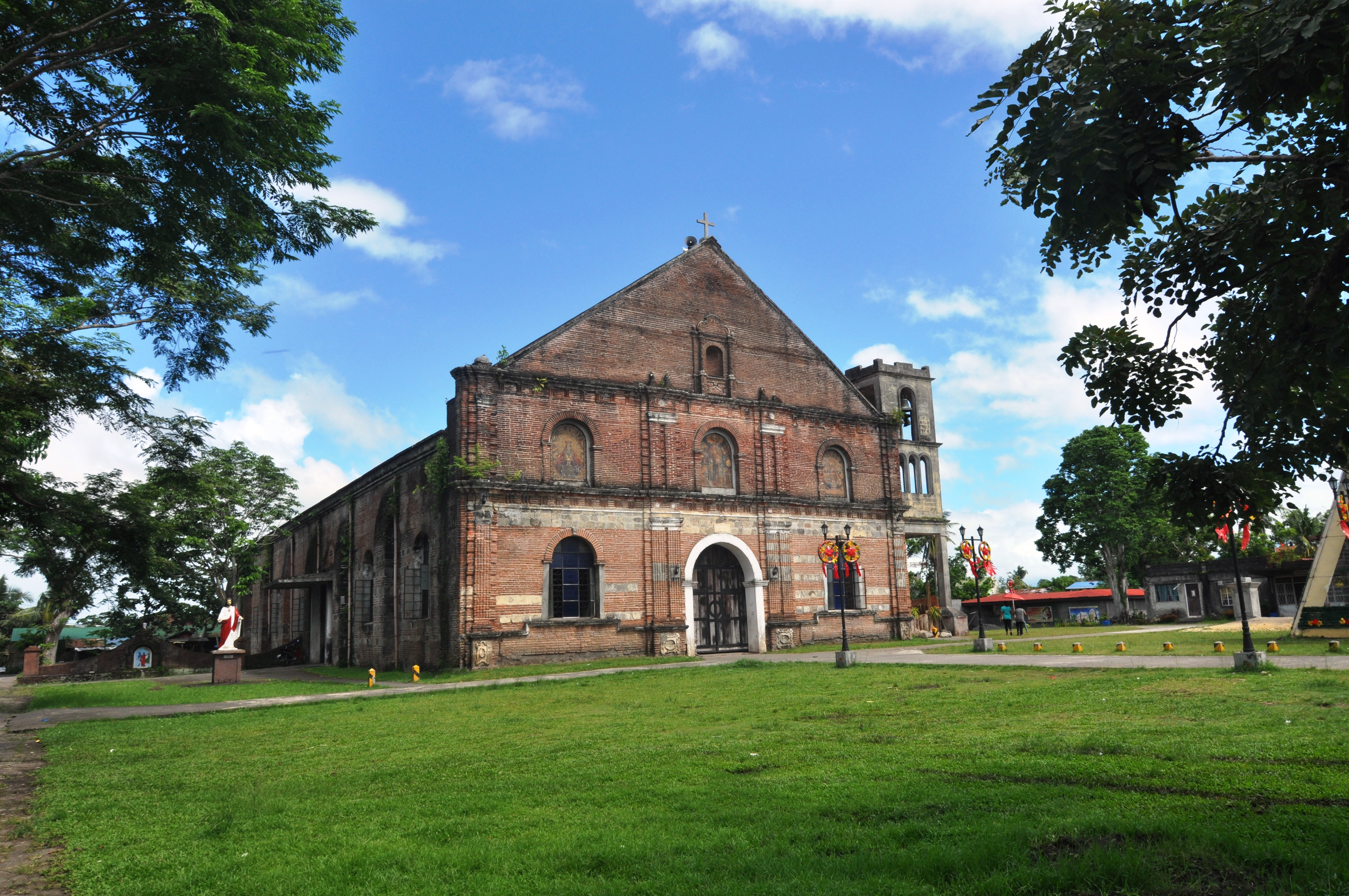 Documentation picture of St. Anthony of Padua Church in Camaligan, Camarines Sur for the Philippine Cultural Heritage Mapping Project